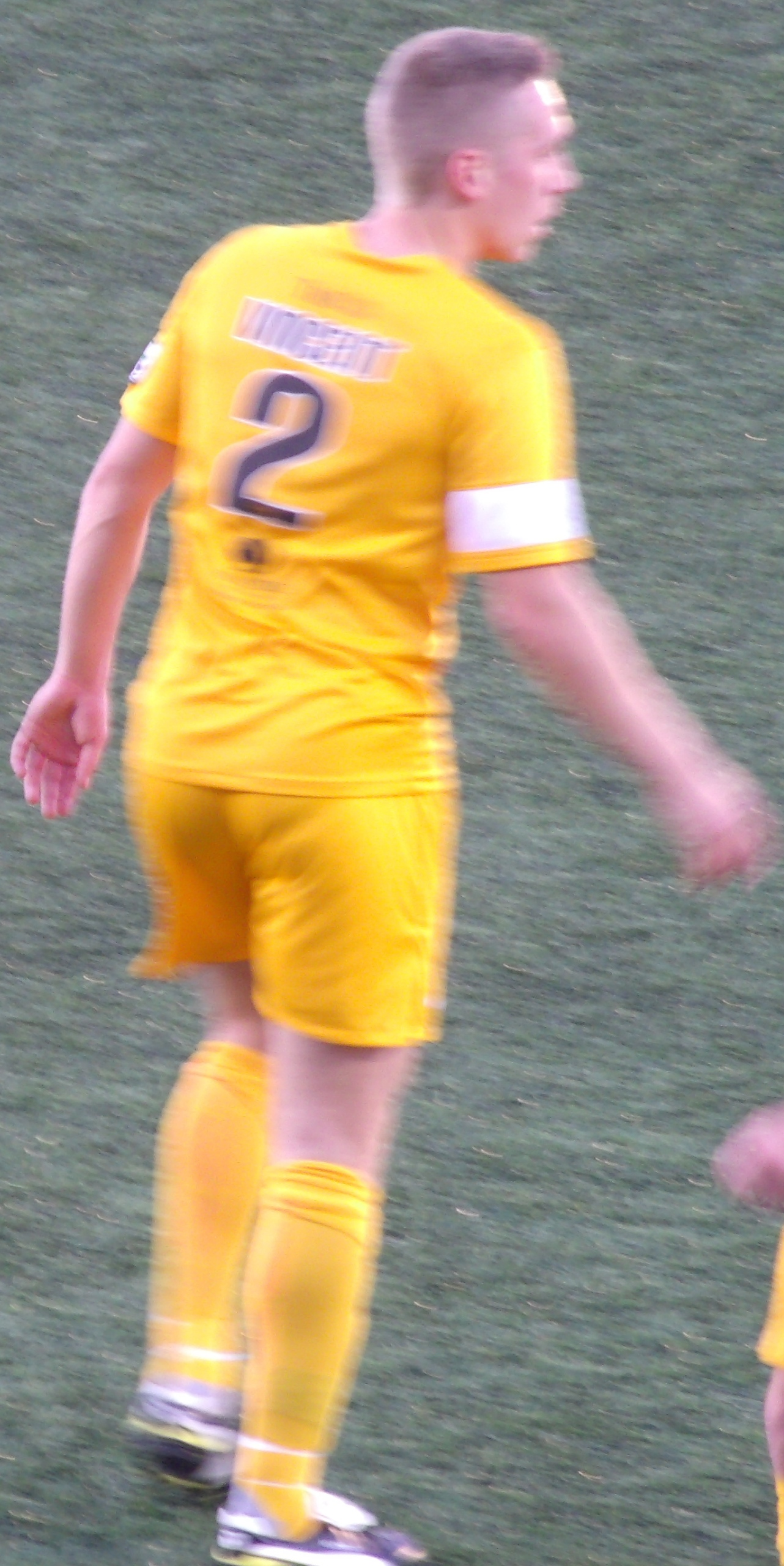 Pittsburgh Riverhounds vs. Wilmington Hammerheads 4/12/14